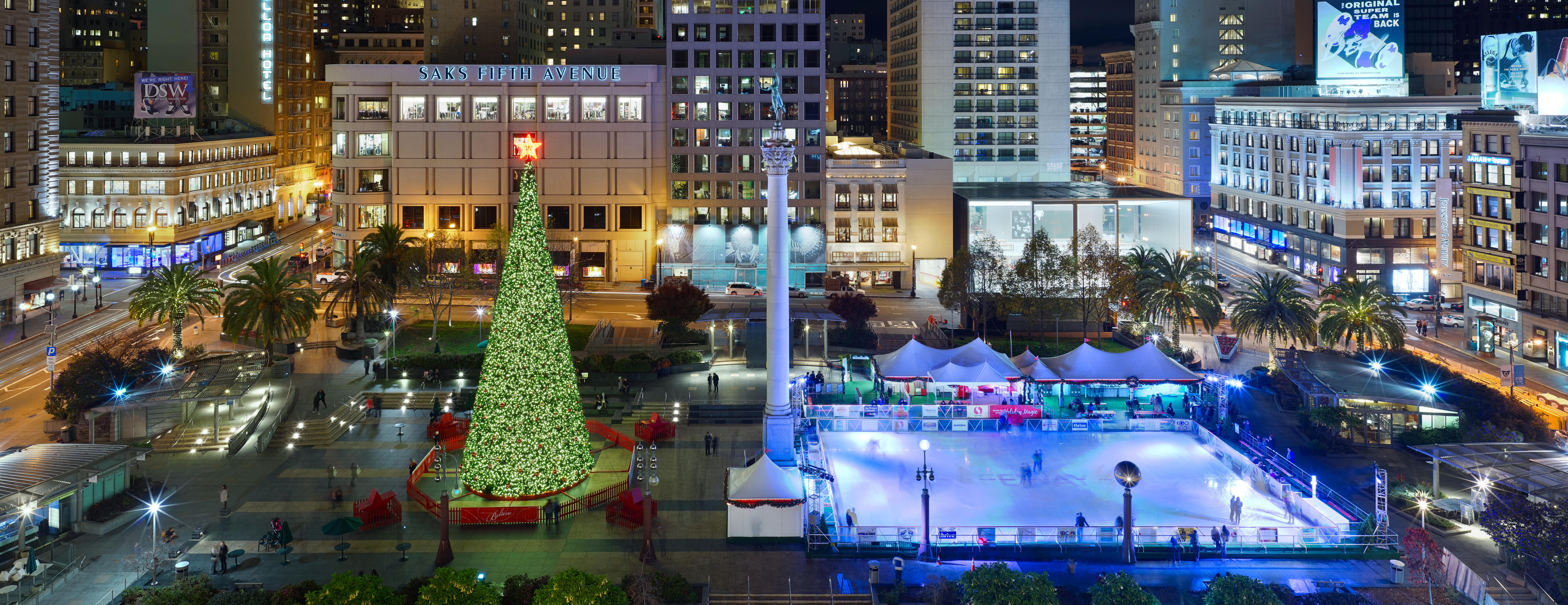 Union Square, San Francisco is a public plaza. Here, it is decorated for Christmas with a skating rink and a Christmas tree. This view is from the public rooftop terrace at the flagship store of Macy's West.